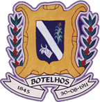 Lucas Ricci